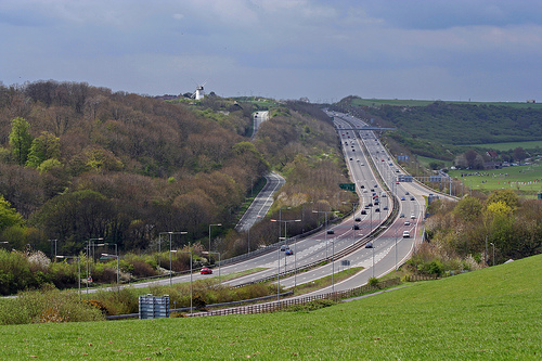 A27 road. Picture looks due west, overlooking the A23-A27 junction at the Mill Road Roundabout.